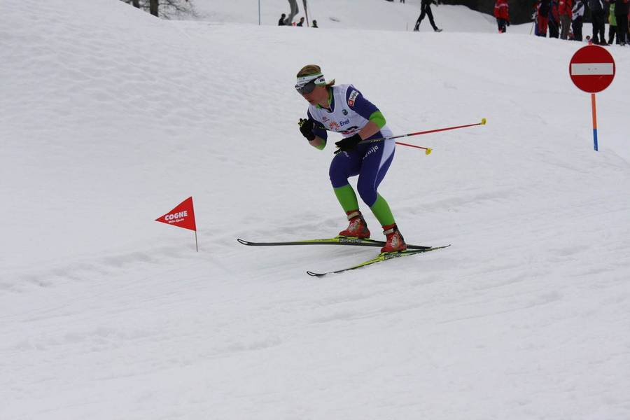 Tadeja Brankovič-Likozar at the 2010 Winter Military World Games